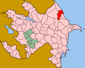 Map of Azerbaijan showing Shabran (Şabran) rayon, named Davachi (Dəvəçi) until 2010.